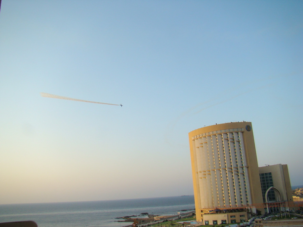 Air Show (celebrating 40th anniversary of Gaddafi's Revolution) above Tripoli's Corinthia Hotel in 2009